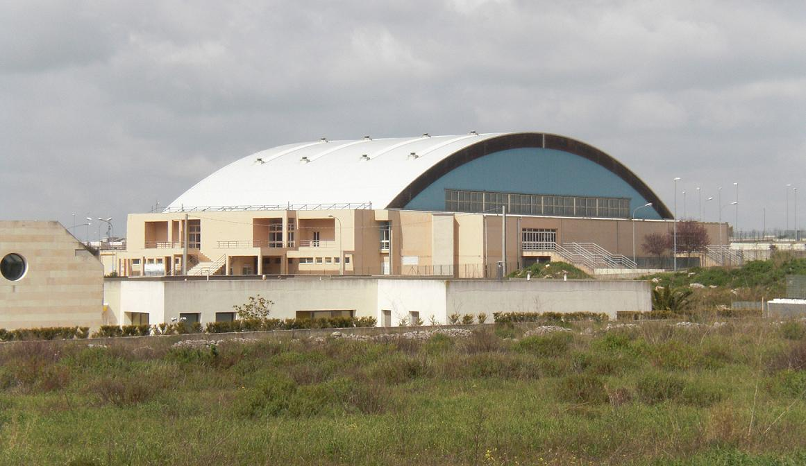 Sport Palace for Basketball of Ragusa, Sicily